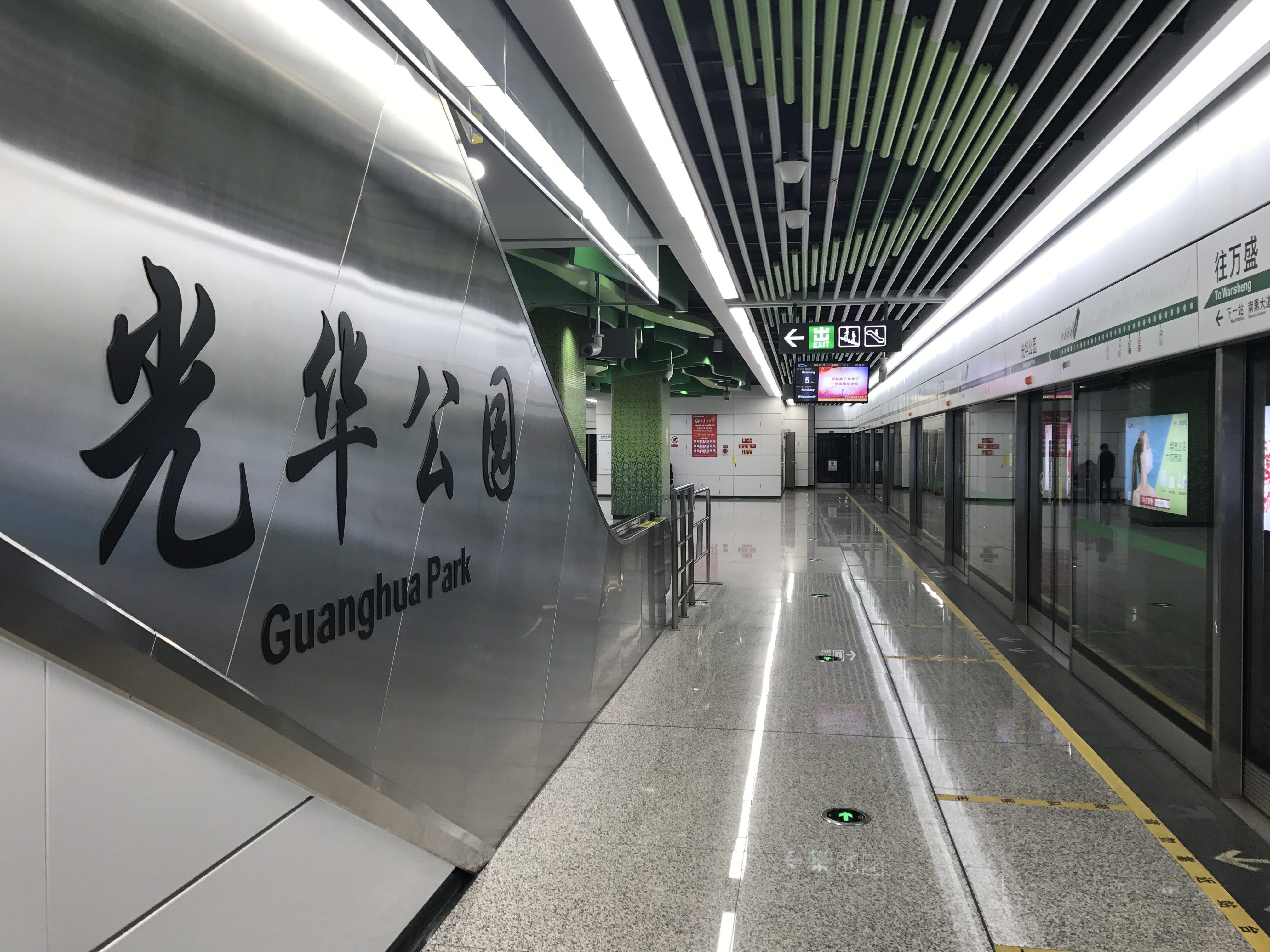 Platform of Guanghua Park Station, Chengdu Metro